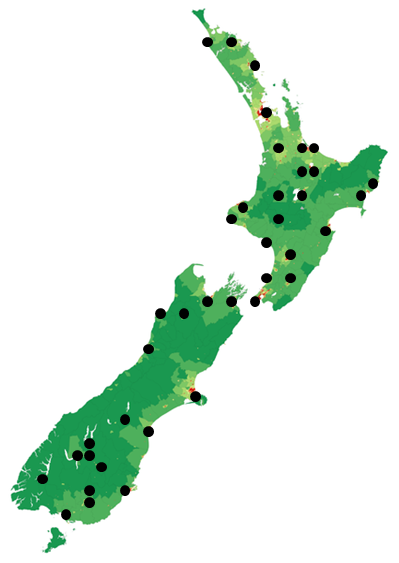 This is a map of Rhema frequencies and population density in New Zealand.